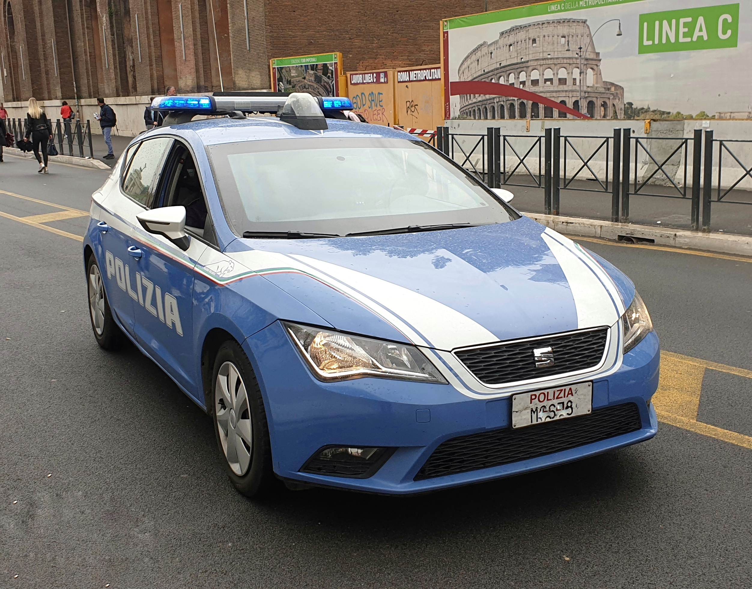 Seat Leon III, variant Style, as police car in the Italian capital Rome.